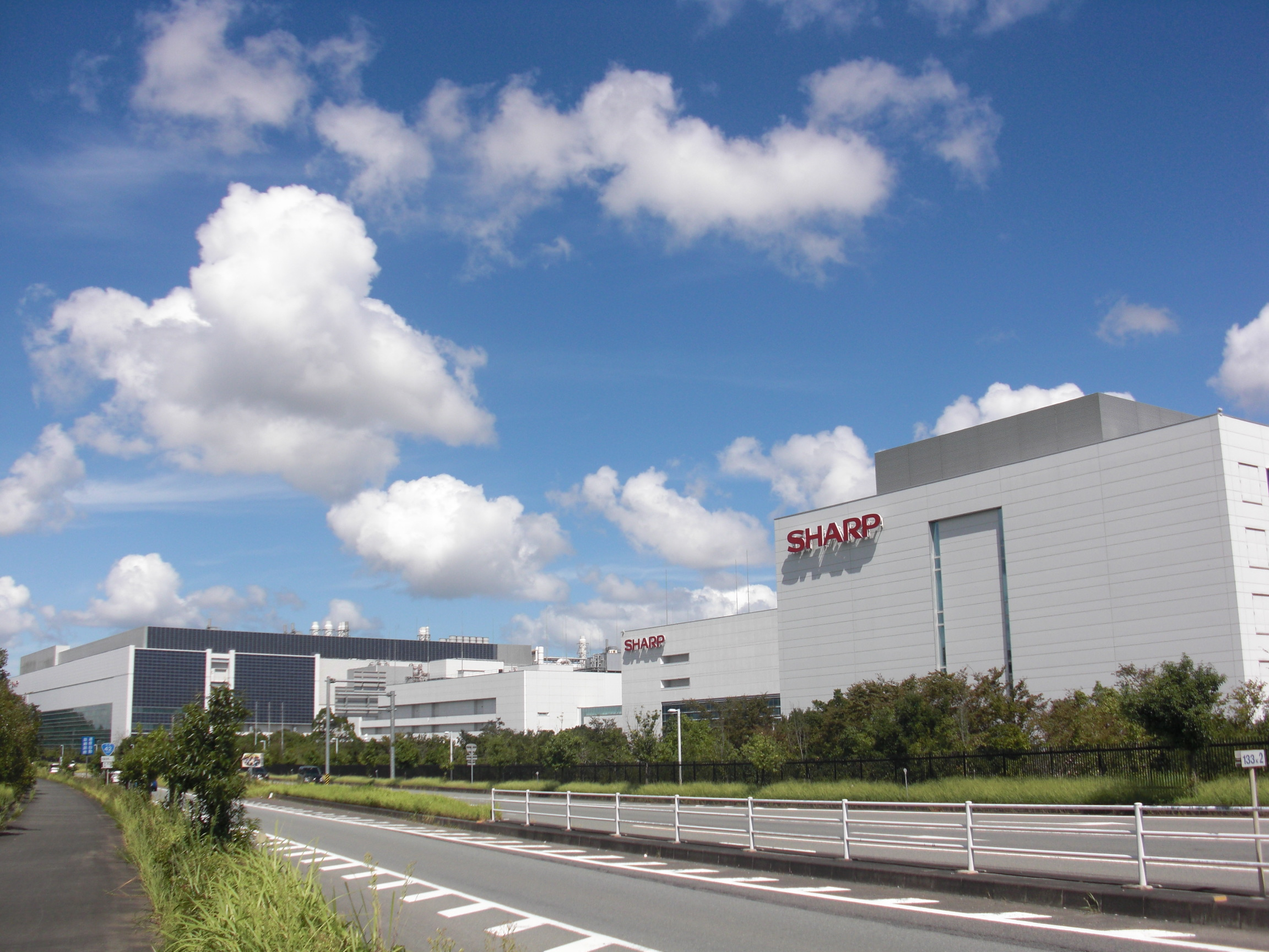 This is the SHARP Mie Factory, which is located in Taki, Mie, Japan.